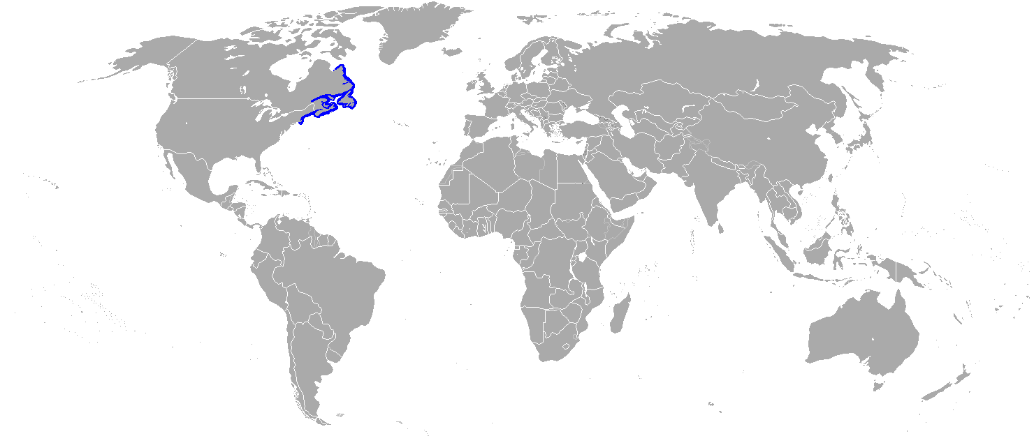 Distribution of the American smooth flounder, liopsetta putnami, using a blank map of the world showing 2008 borders. Based on File:BlankMap-World.png; as it is PD, this is too.